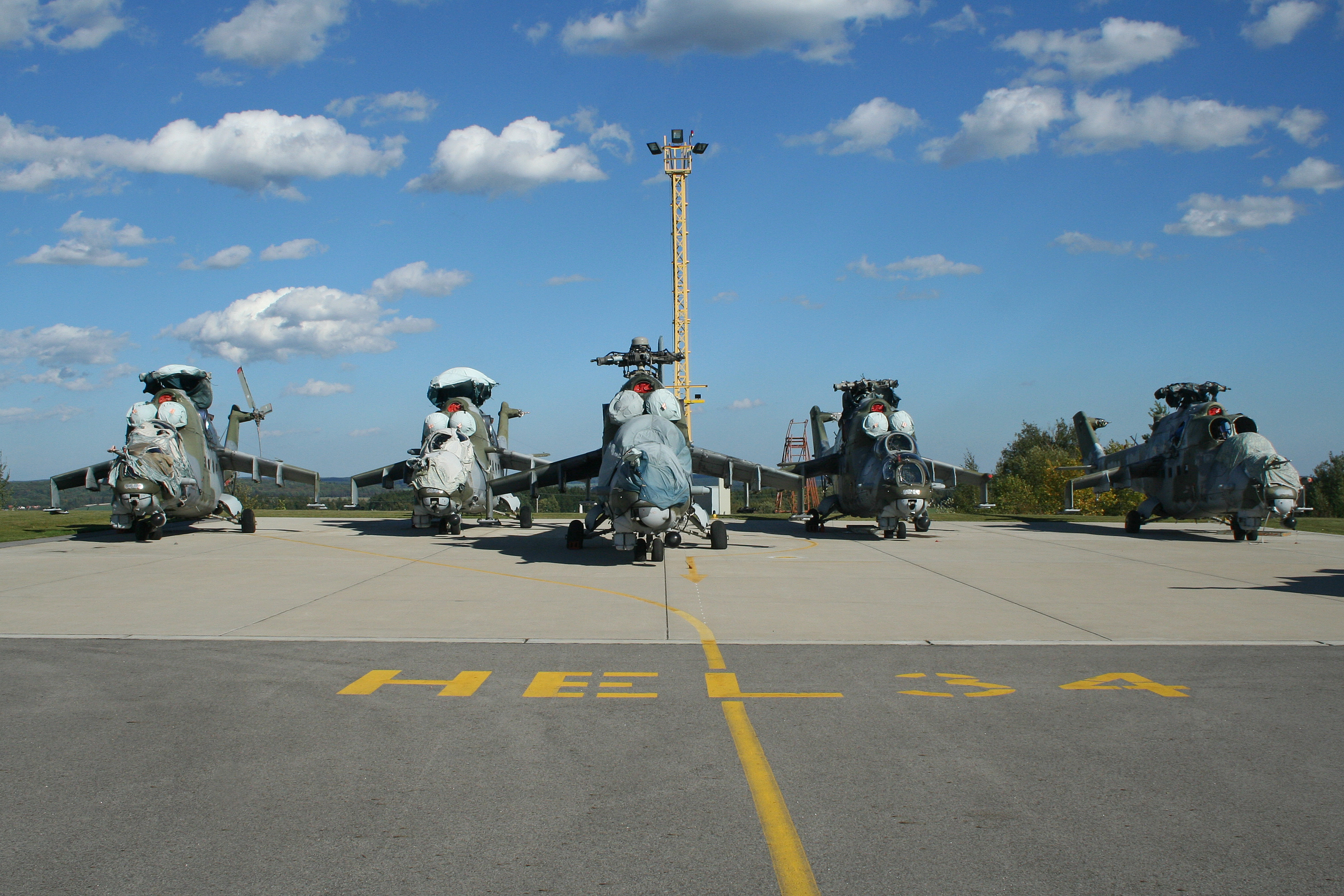 Five of the stored Hinds in a corner of the base. Seen here are:- 0702 msn 370702, 0710 msn 370710, 0788 msn 370788, 0815 msn 370815 and 0835 msn 370835. These will probably end up in service with another air arm. It would be a shame if they were scrapped! Namest Open Day, Czech Republic. 06-10-2012